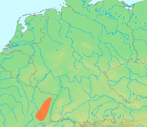 Locator maps for mountain ranges : Location Vosges.PNG